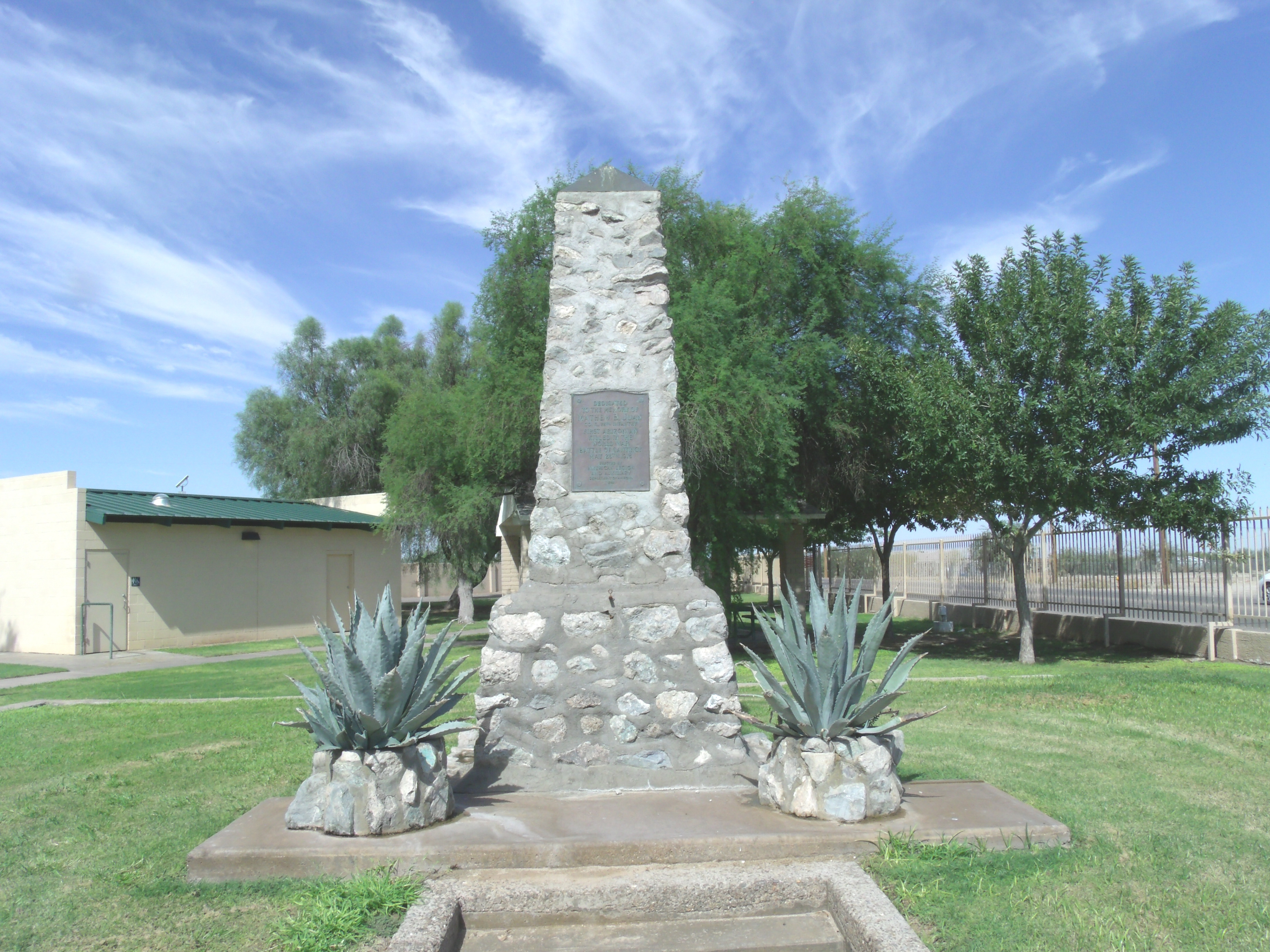 Michael Sullivan’s last completed project was the Pvt. Matthew B. Juan monument in 1927 in the town of Sacaton, Arizona.